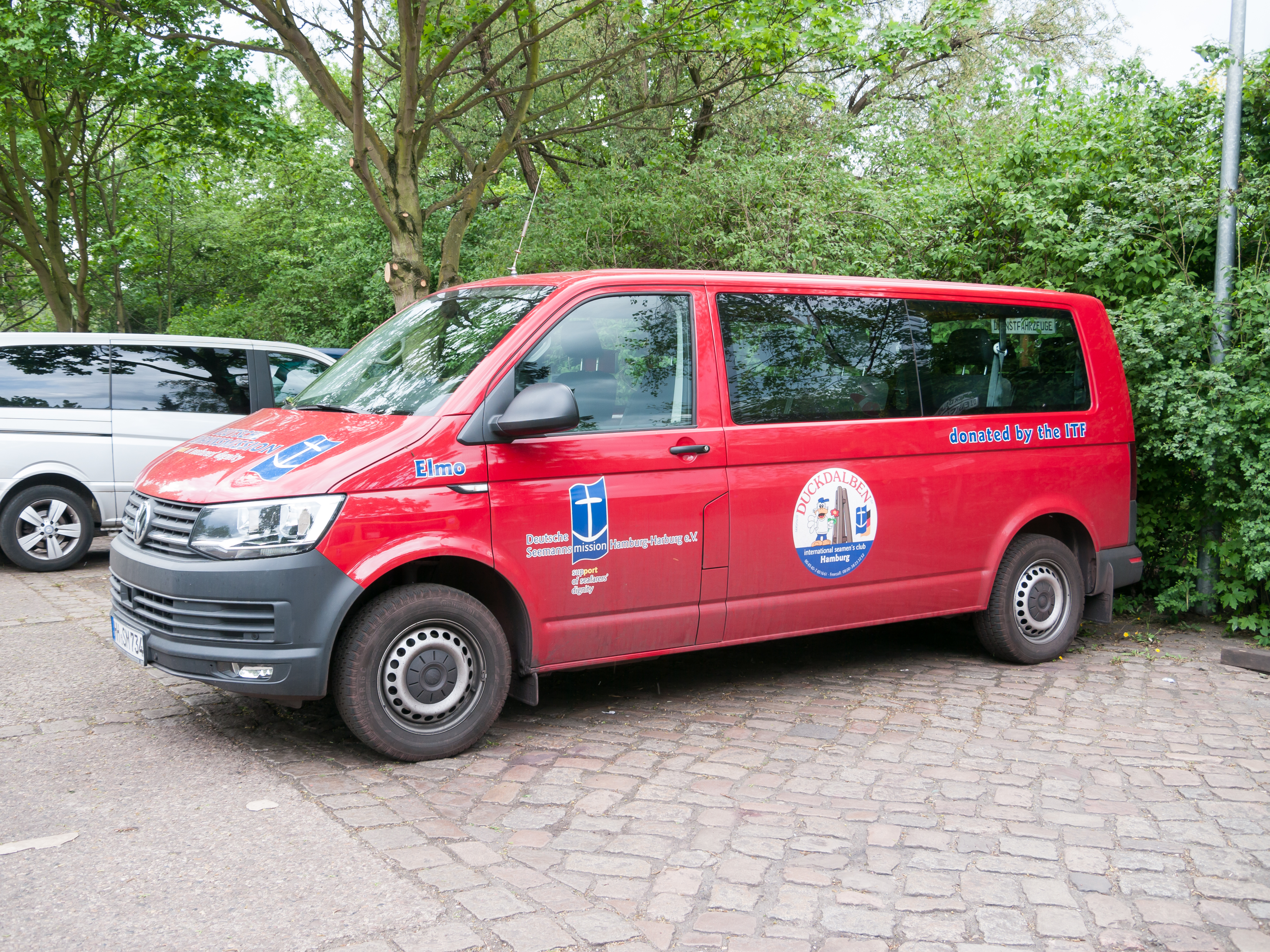 Shuttle bus of Duckdalben Seafarers' Lounge, Wikipedia Ahoi in Hamburg 2019